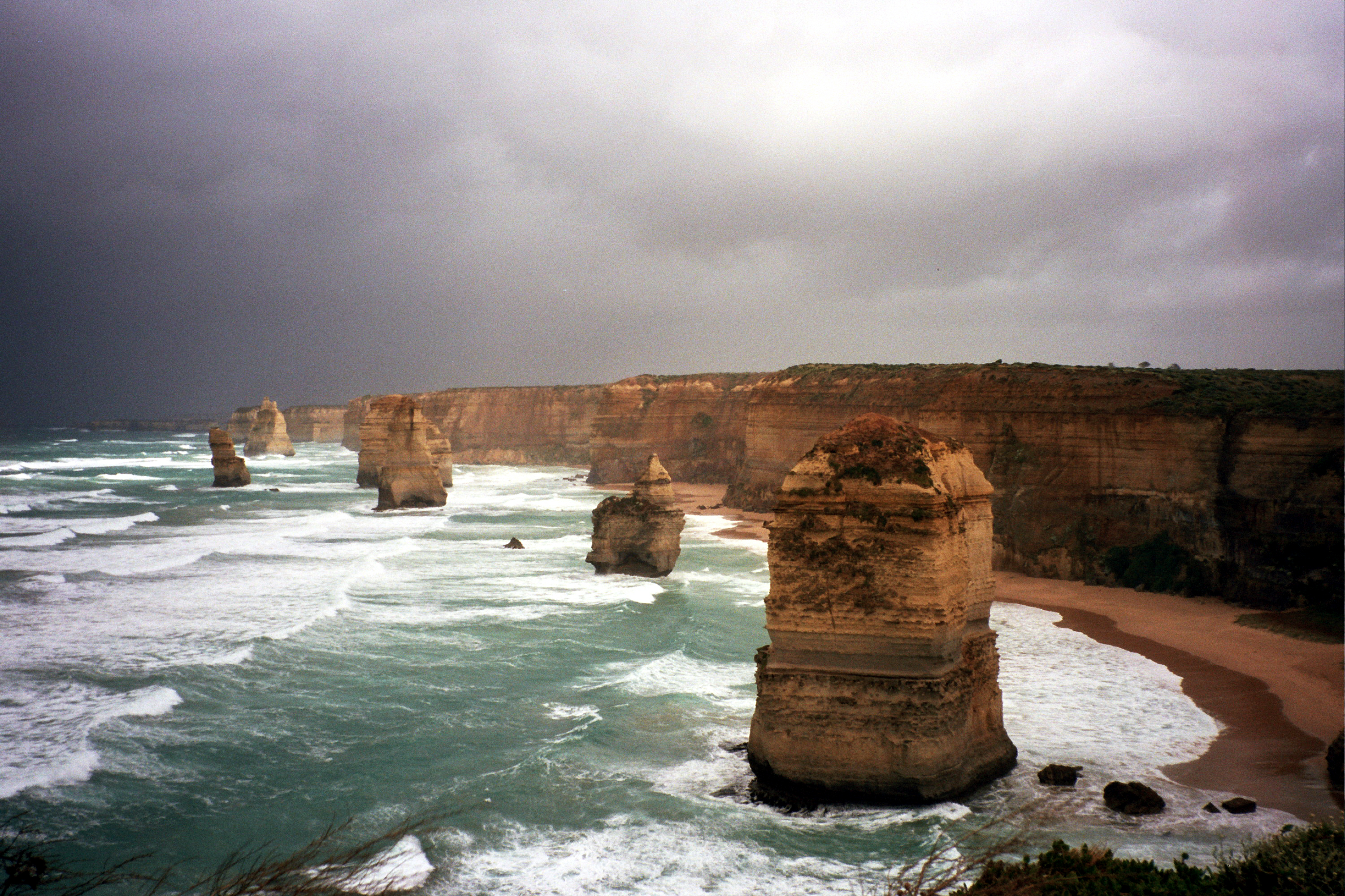 Off the shore of the Port Campbell National Park, by the Great Ocean Road in Victoria, Australia.